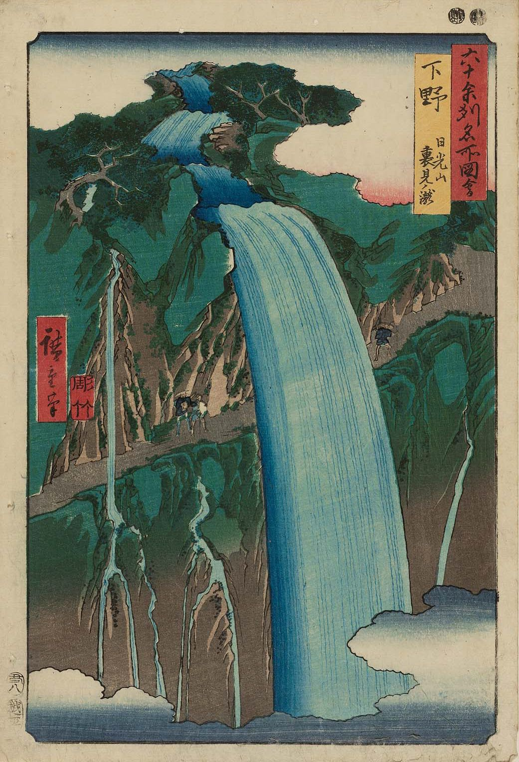 Part of the series Famous Places in the Sixty-odd Provinces, No. 27 (Tōsandō group)